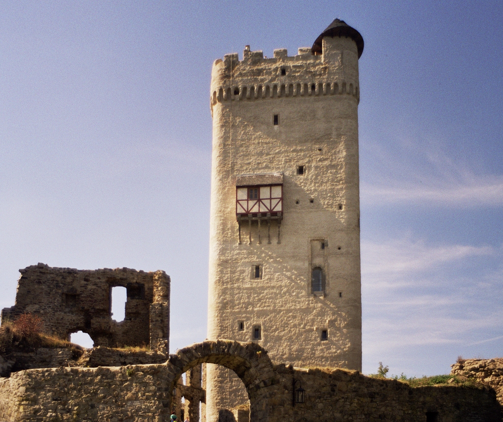 Olbrueck Castle, keep